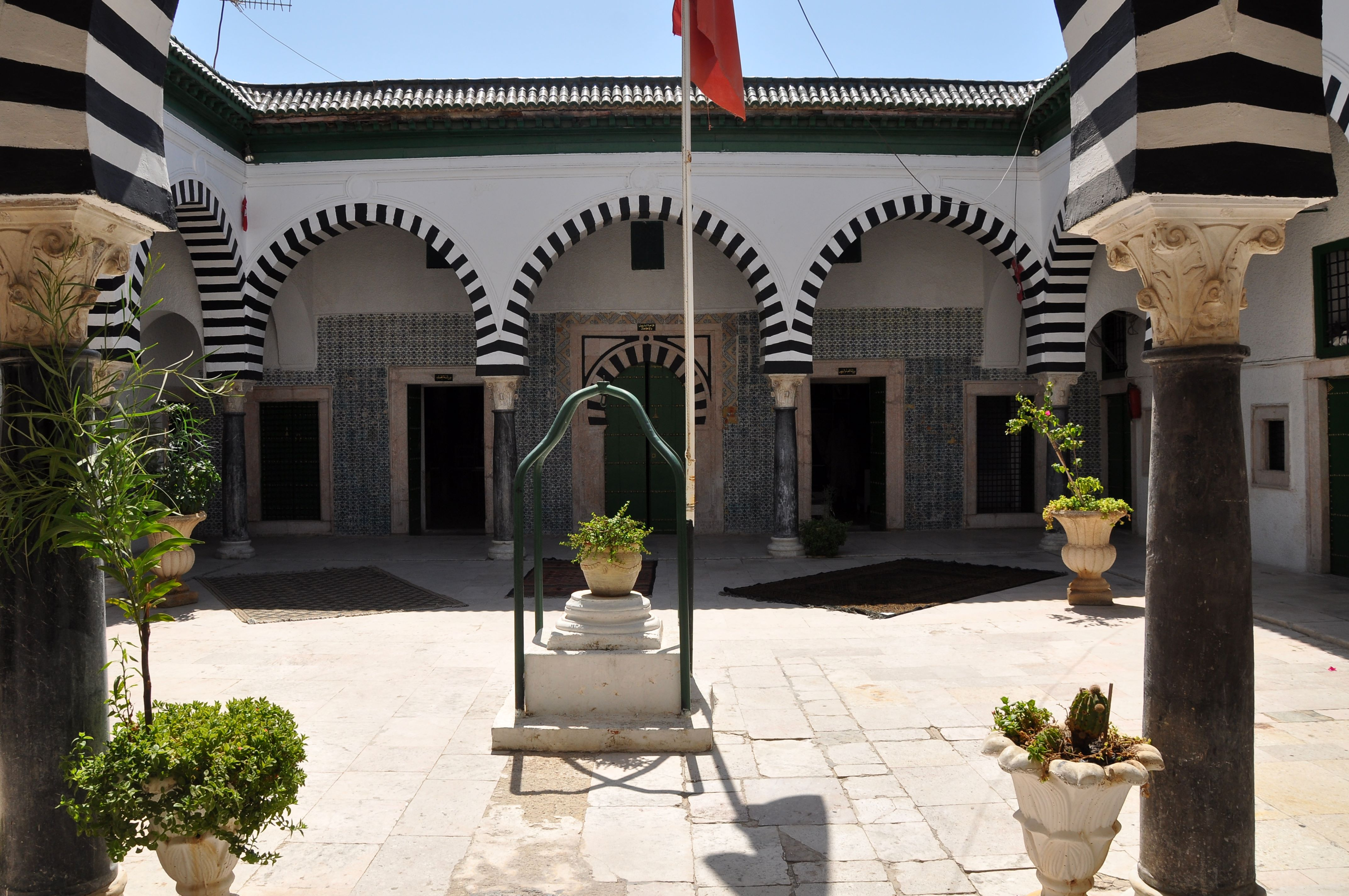 Medersa El Bachia in the medina of Tunis (Tunisia)